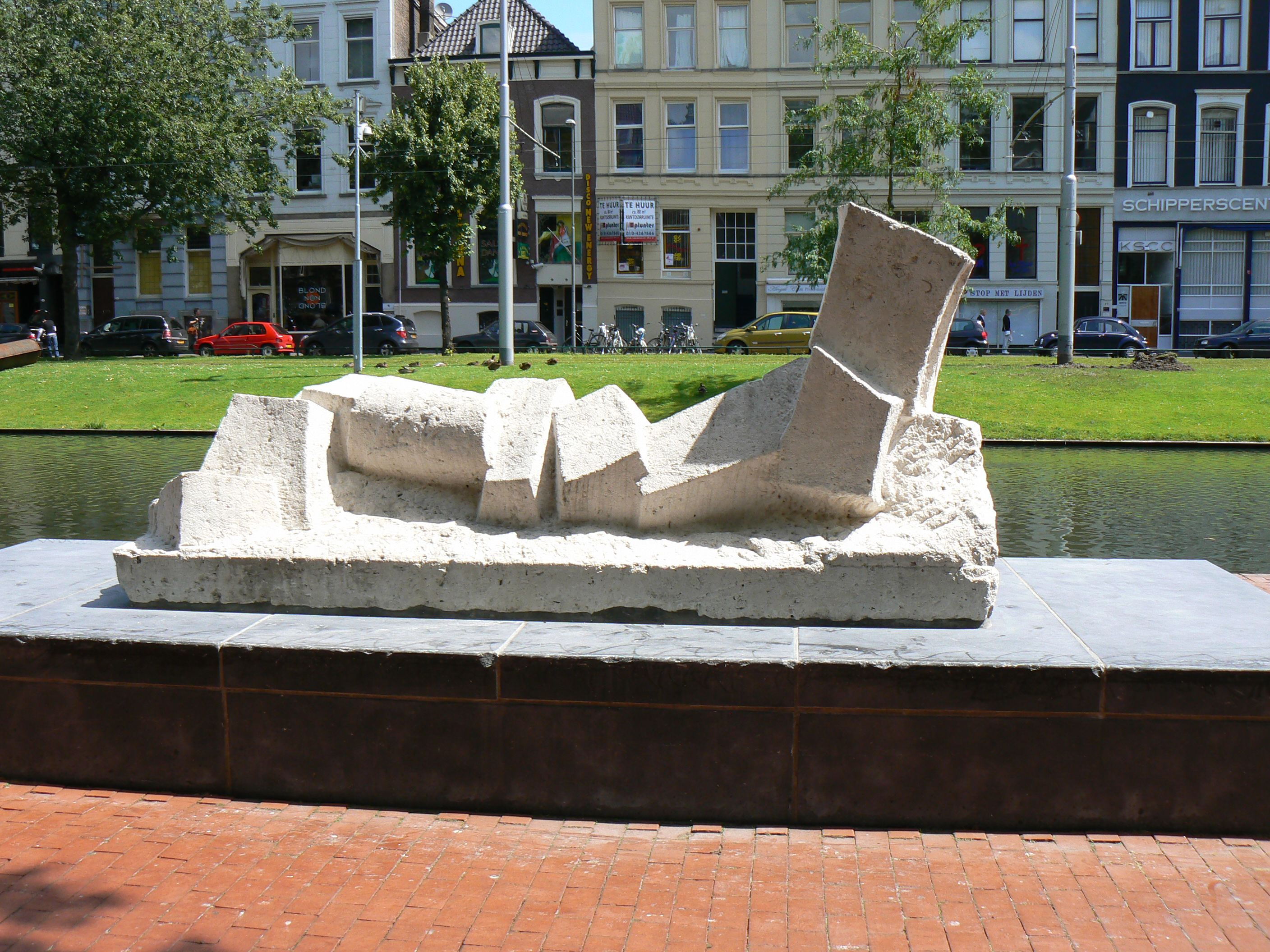 sculpture "liggende figuur"by Fritz Wotruba in Rotterdam/The Netherlands